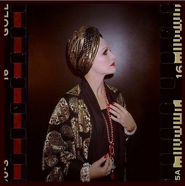 I Snapped This Shot Of Glenn Almost 20 Years Ago Back Stage At The Schubert Theatre During A Dress Rehersal For SUNSET BLVD